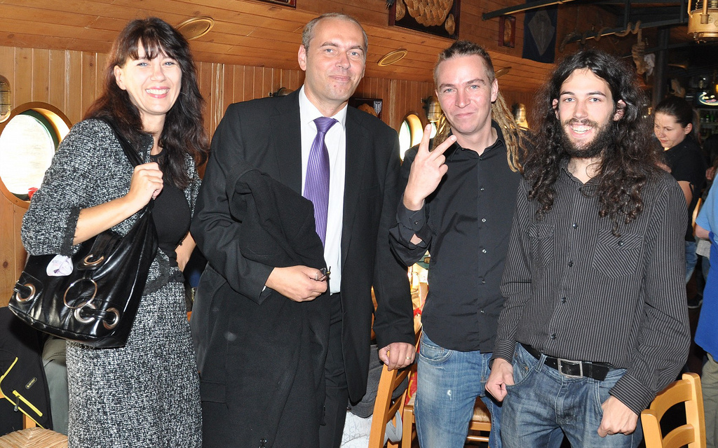 Senator Libor Michálek on a Pirate Press Conference 2012